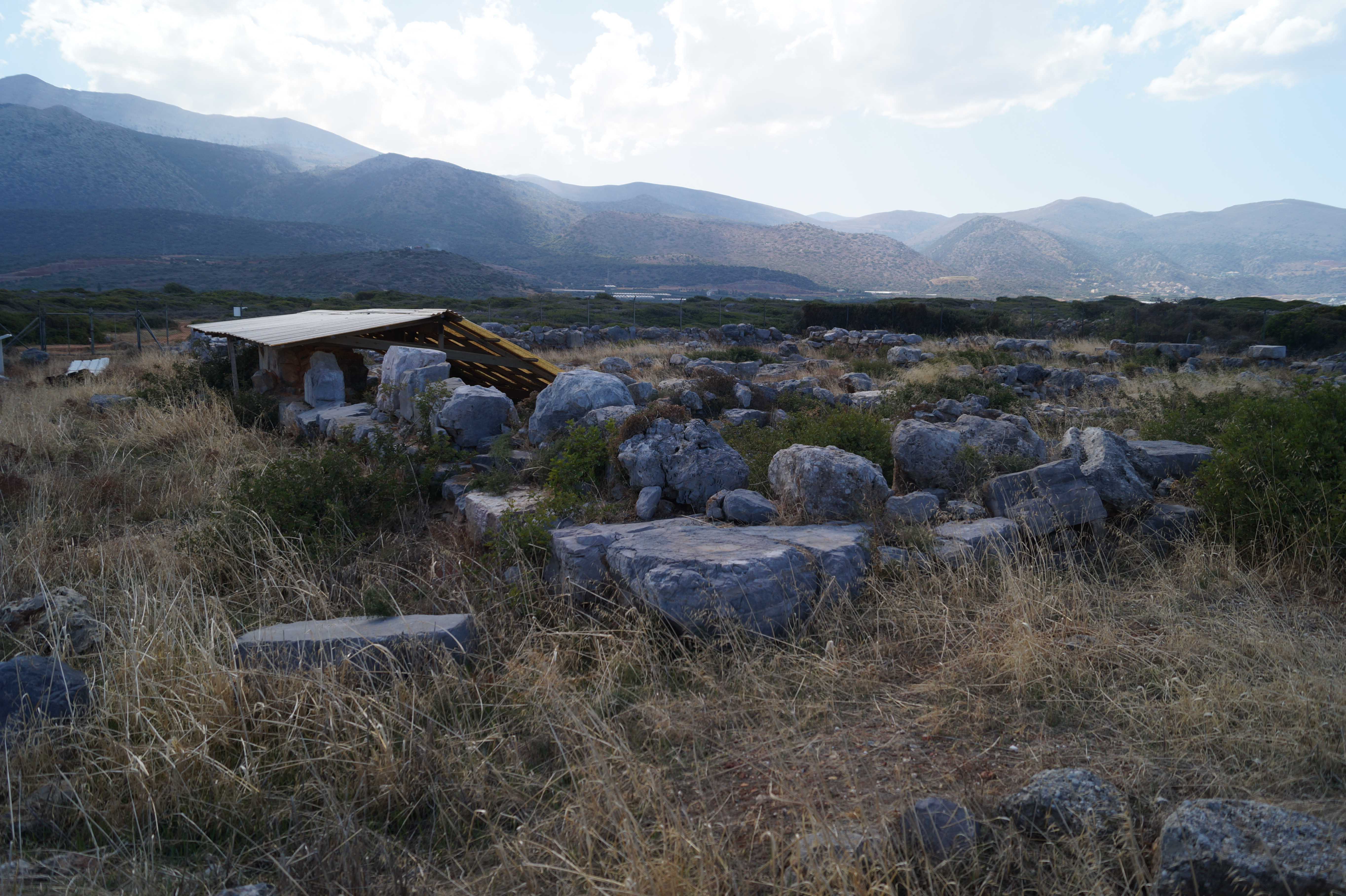 Malia, Crete: View from northeast on the necropolis of Chrysolakkos.